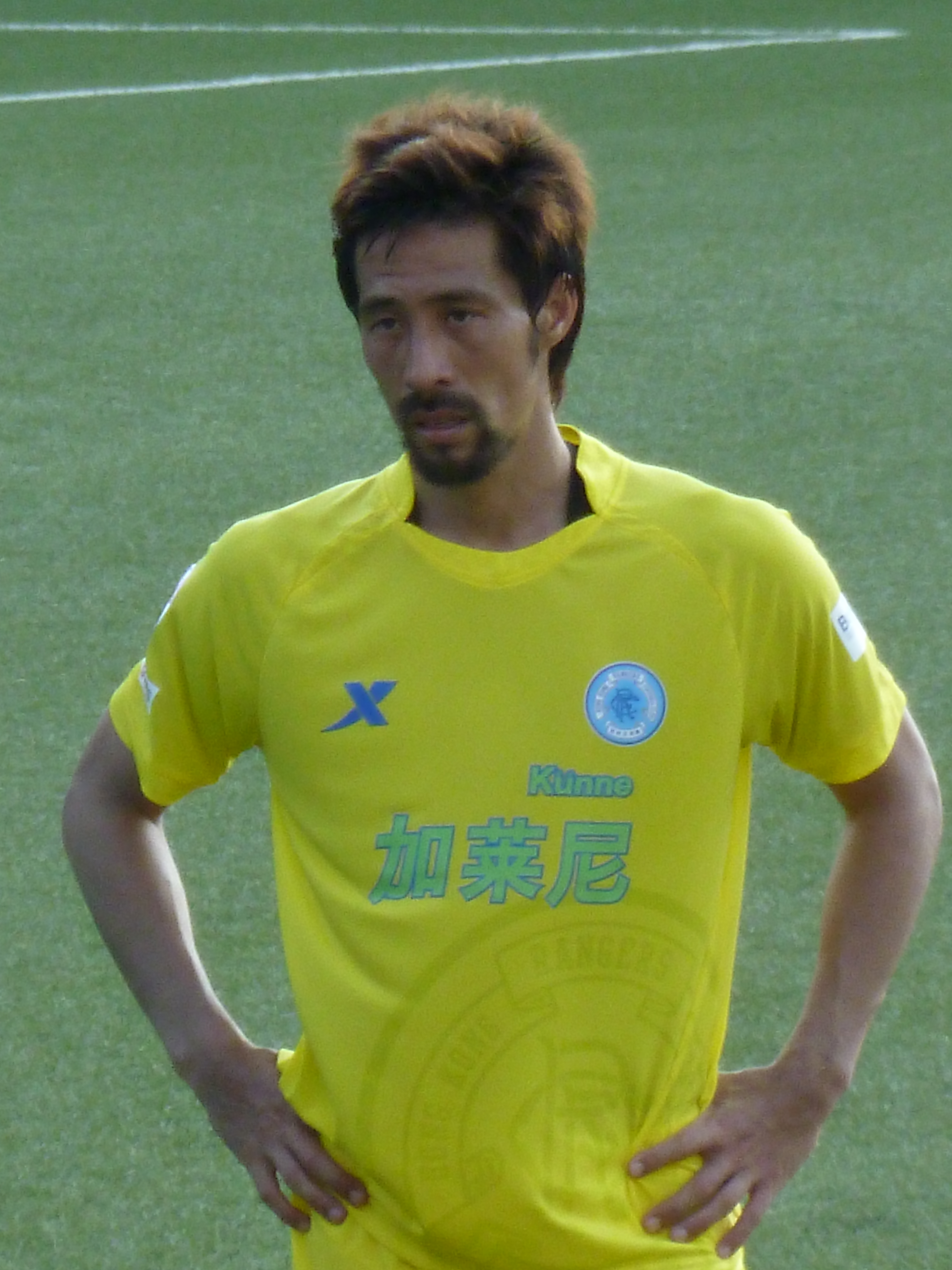 Hiromichi Katano (29 Mar 2015, Hong Kong Premier League, Rangers vs Kitchee, Kowloon Bay Park) 中文（香港）: 片野寛理 (29 Mar 2015, 香港超級聯賽, 流浪 vs 傑志, 九龍灣公園)